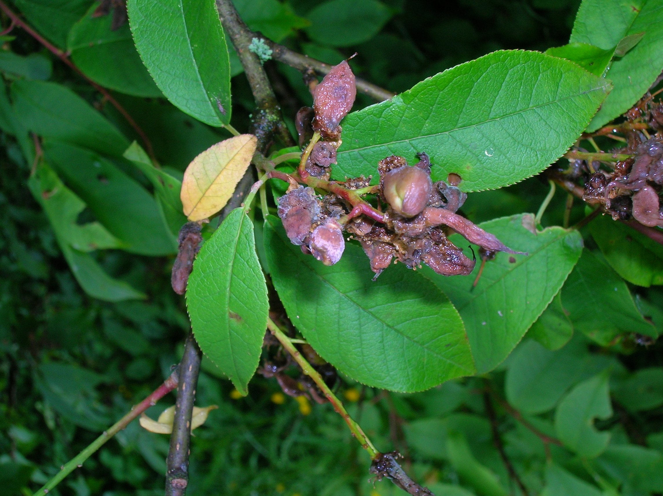 A bluish bloom over the Taphrina padi mature pocket plum gall, Dalgarven Mill, Ayrshire, Scotland